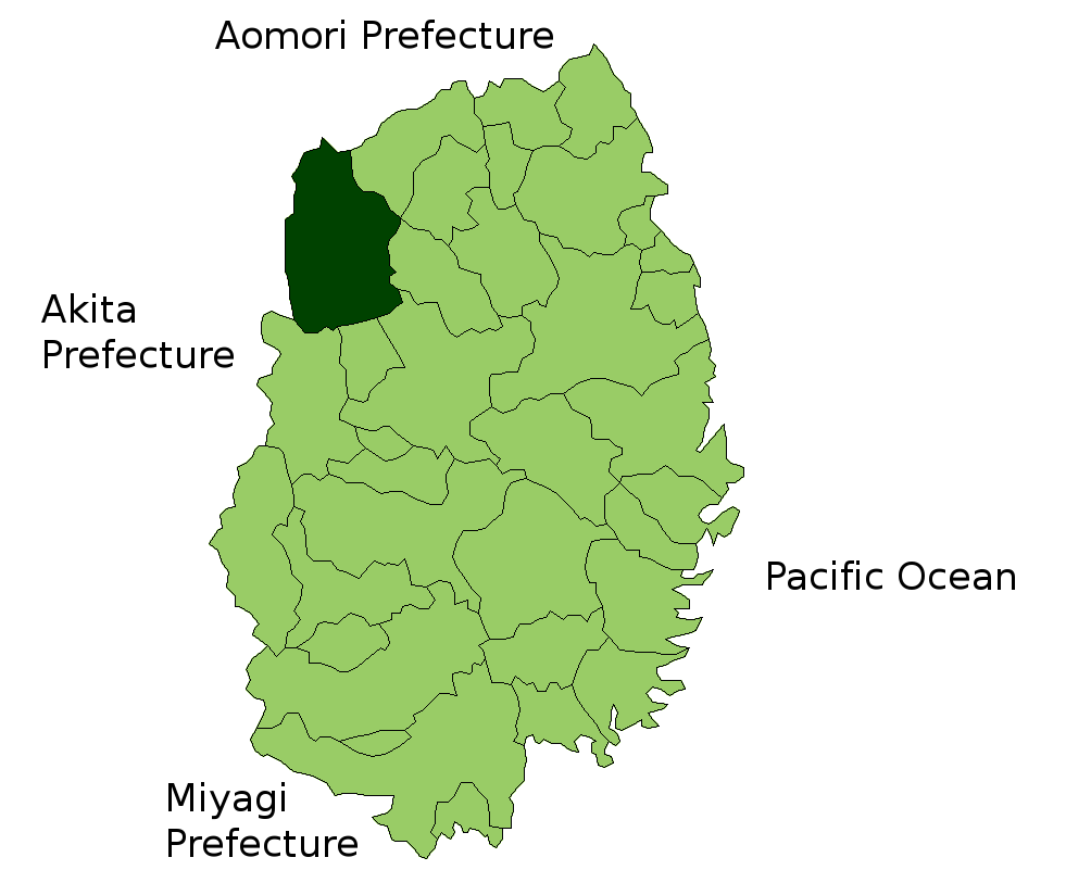 Location Map of Hachimantai in Iwate Prefecture, Japan